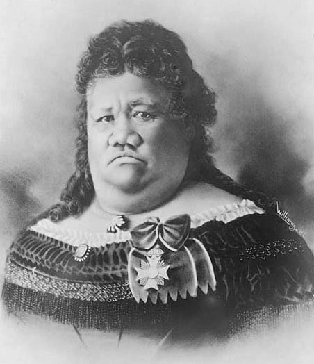 Princess Ruth Keʻelikōlani (1826-1883), was a major heir to the Kamehameha Dynasty, founder of the Kingdom of Hawaii. She served as Governor of the island of Hawai'i and owned about 9% of the land at the time of her death. Much of her estate is now the endowment of the Kamehameha Schools.